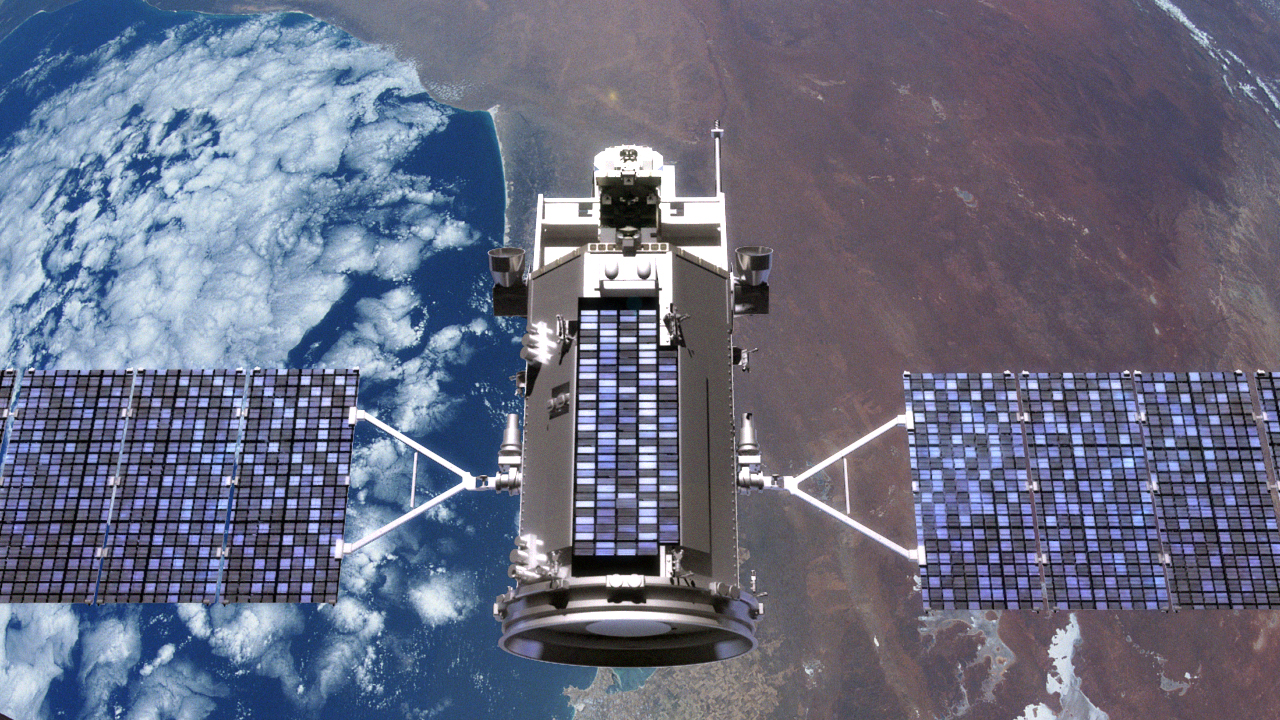 NASA's Glory satellite